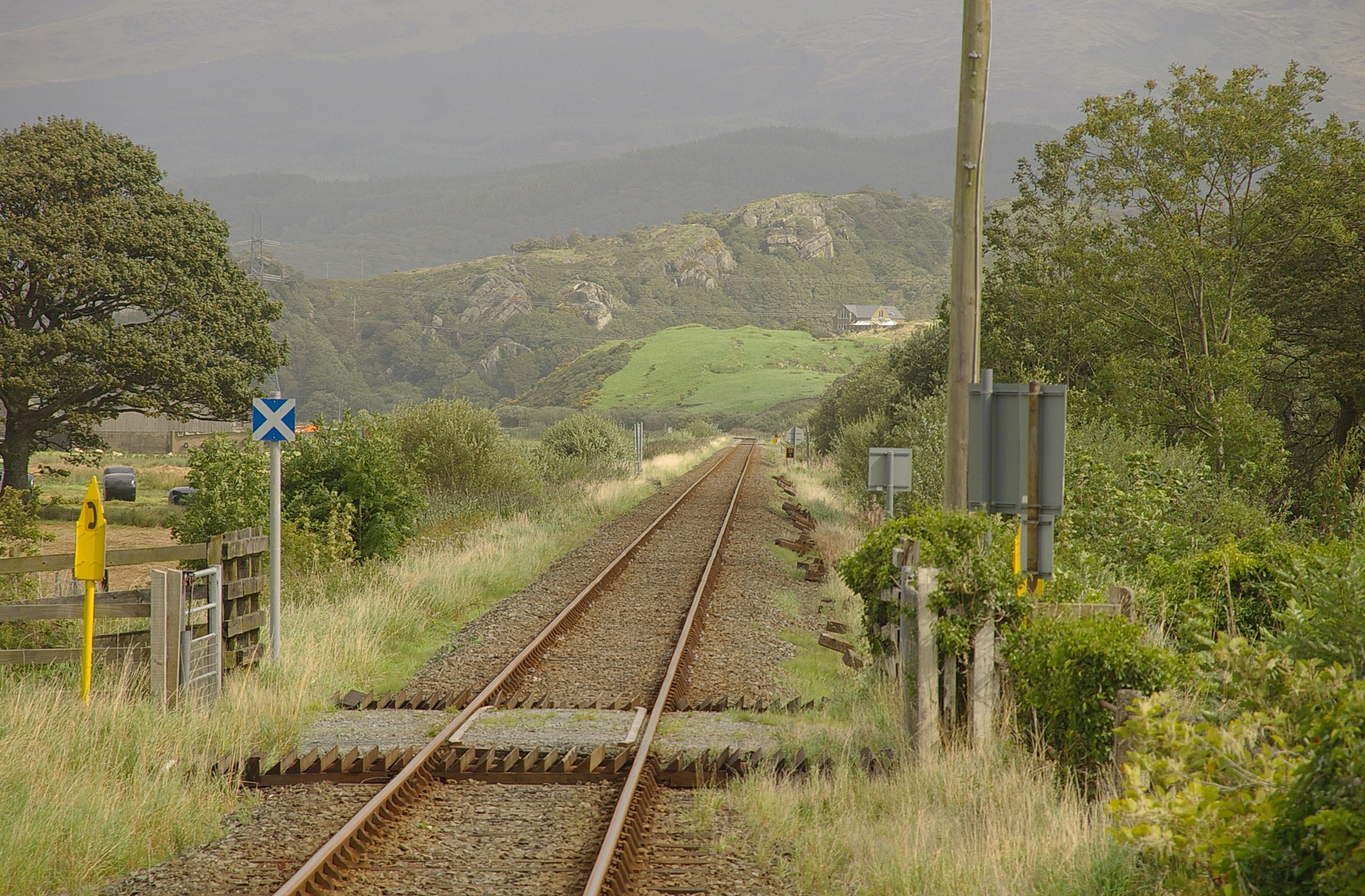 Looking north from Talsarnau station on the Cambrian Coast Line.